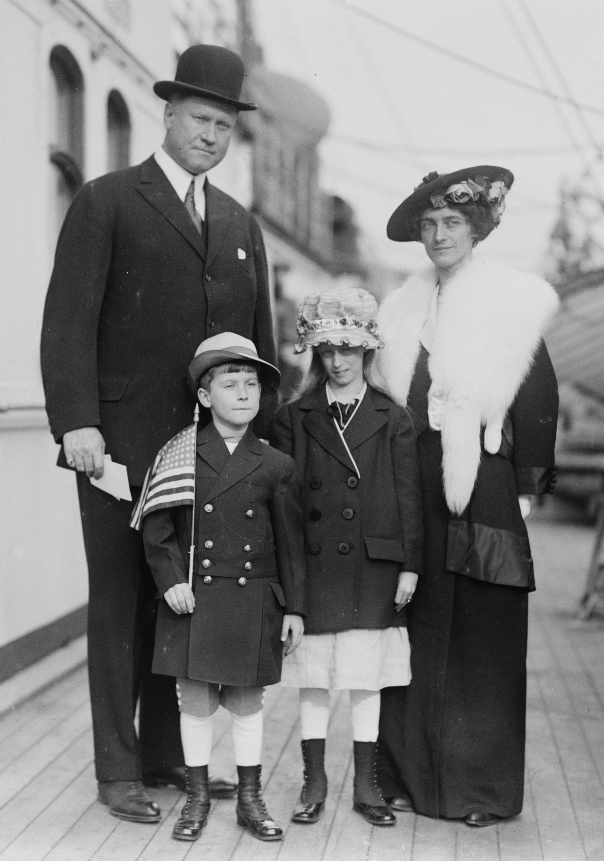 H.W. Thronton and family (LOC) Bain News Service,, publisher. Henry Worth Thornton and family in 1915 [between ca. 1910 and ca. 1915] 1 negative : glass ; 5 x 7 in. or smaller. Notes: Title from unverified data provided by the Bain News Service on the negatives or caption cards. Forms part of: George Grantham Bain Collection (Library of Congress). Format: Glass negatives. Repository: Library of Congress, Prints and Photographs Division, Washington, D.C. 20540 USA, General information about the Bain Collection is available at Persistent URL: Call Number: LC-B2- 3045-11 Comments and faves